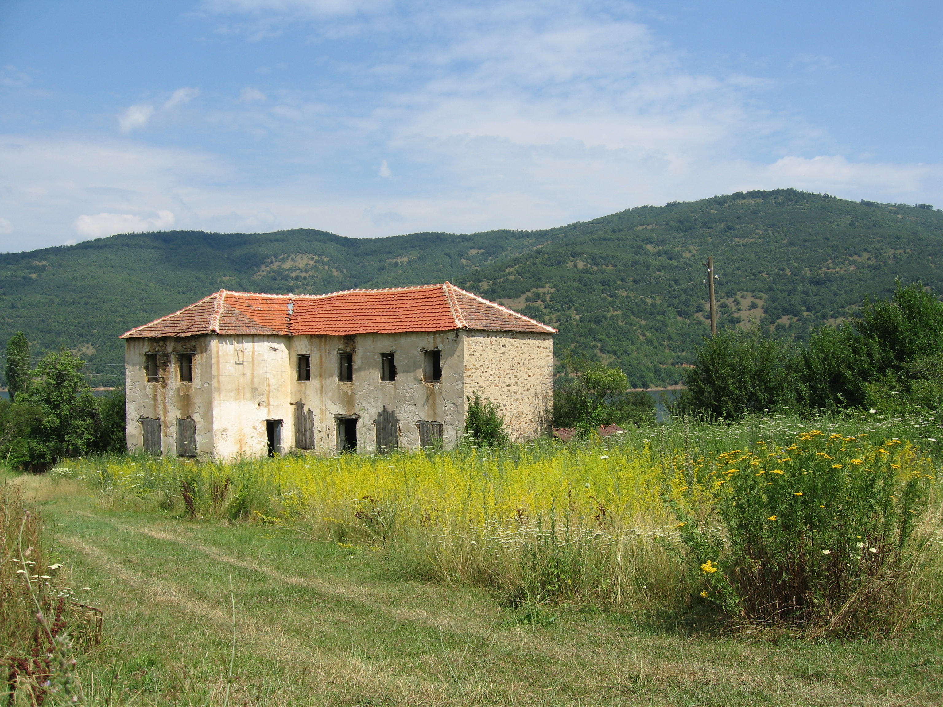 Strezevo's Town hall as was in 2005